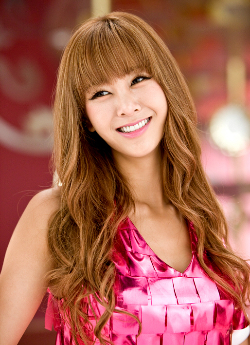 Korean singer G.NA at LG Smart Nethard advertisement photograph.